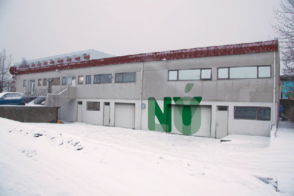 Nýló exterior